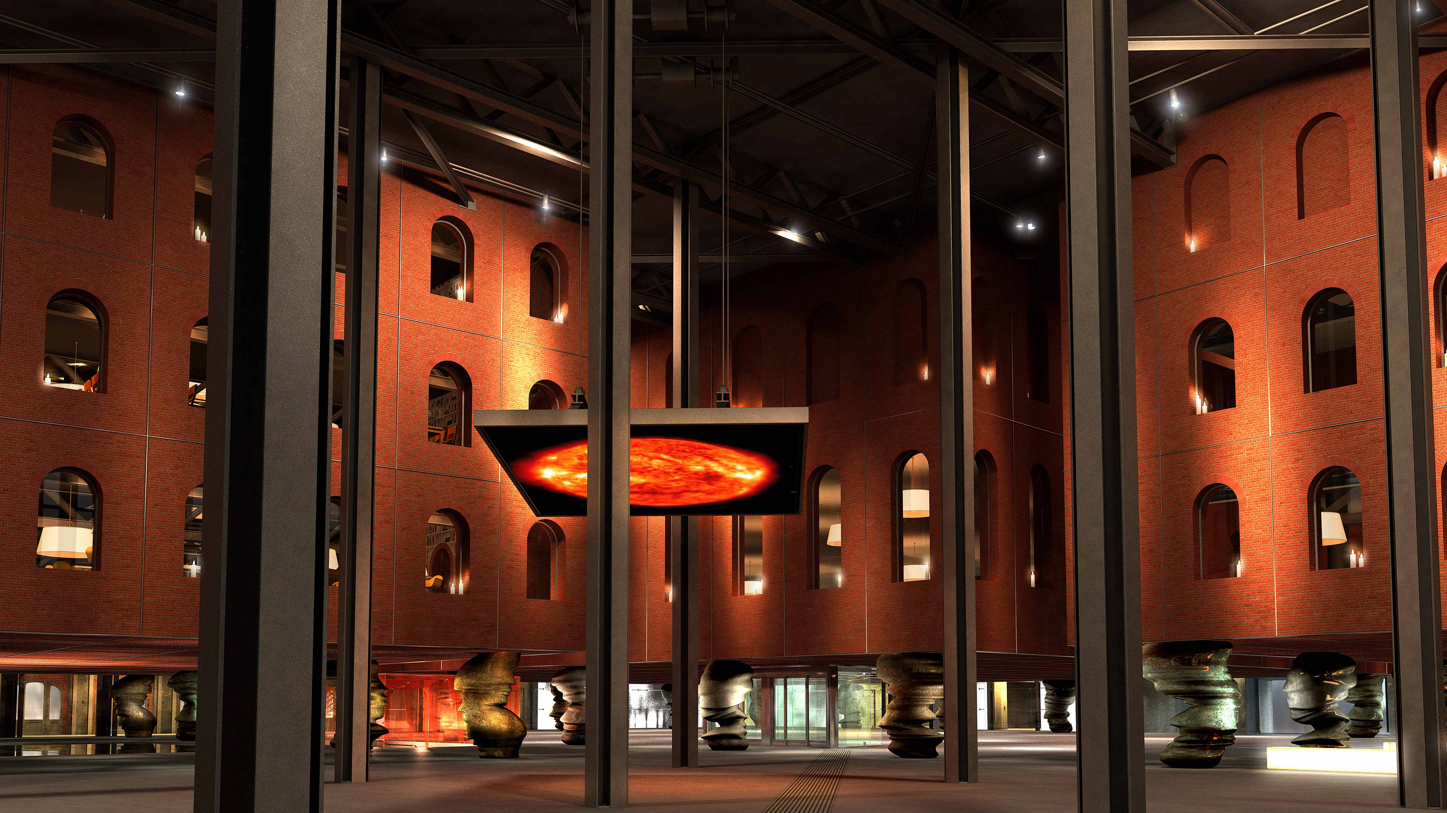 Alhondiga, life center, Bilbao, 2010